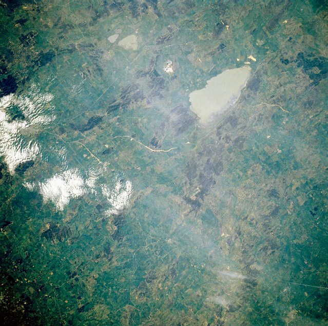 Lake George, New South Wales, Australia - November 1985 image description